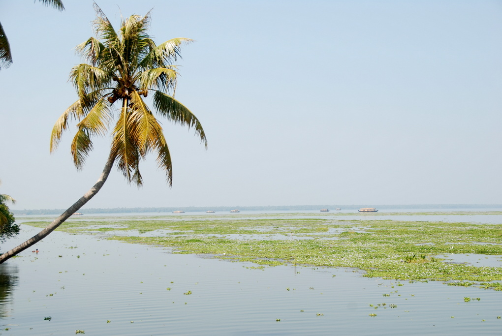 An arching coconut tree, besides the vembanad waterways.